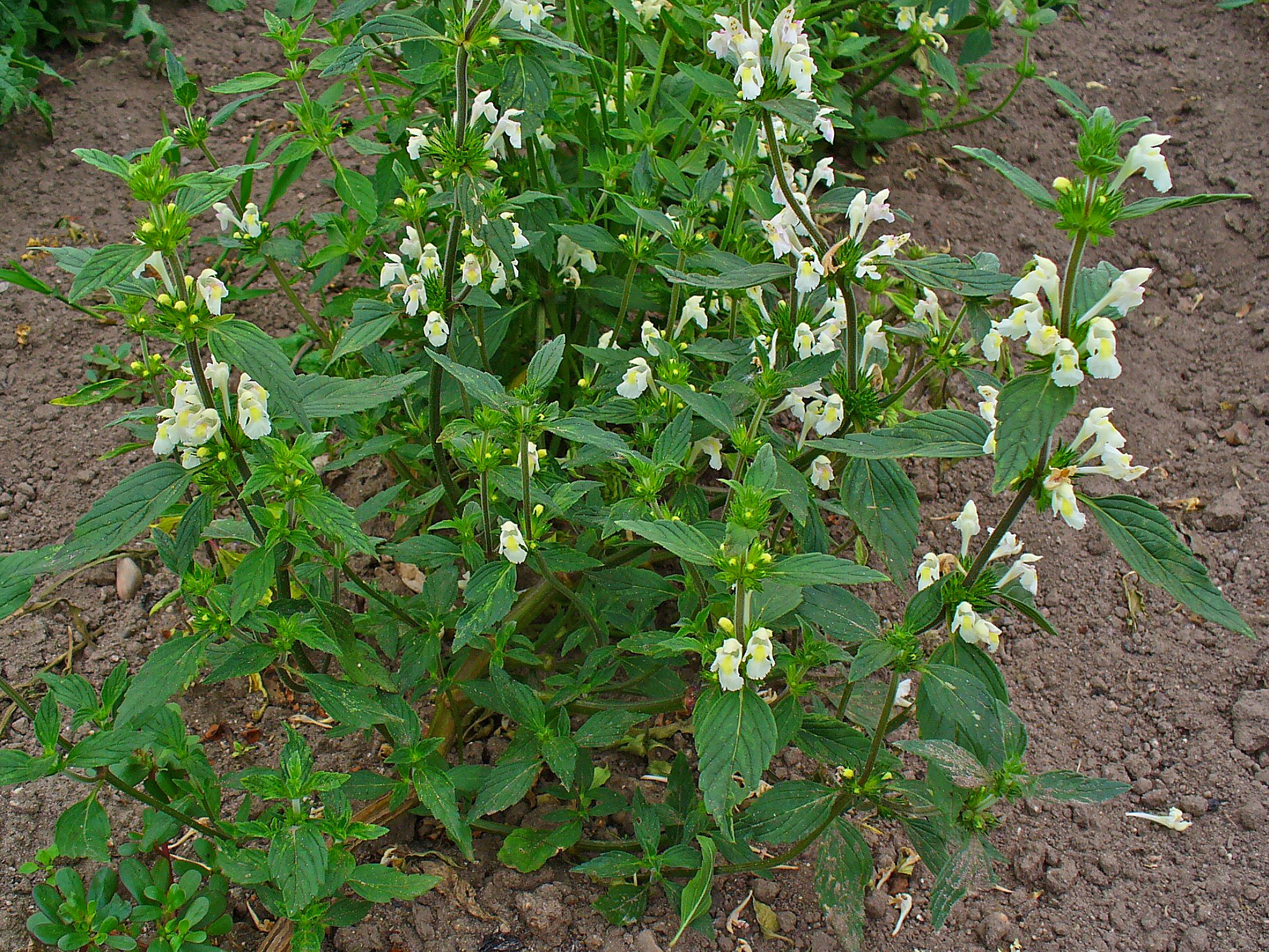 Galeopsis segetum, Lamiaceae, Downy Hempnettle, habitus. The blooming plant is used in homeopathy as remedy: Galeopsis (Galeo.)